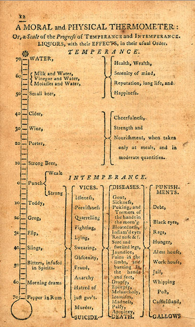 The Moral Thermometer from Benjamin Rush's An Inquiry into the Effects of Spirituous Liquors on the Human Body and the Mind. Boston: Thomas and Andrews, 1790.